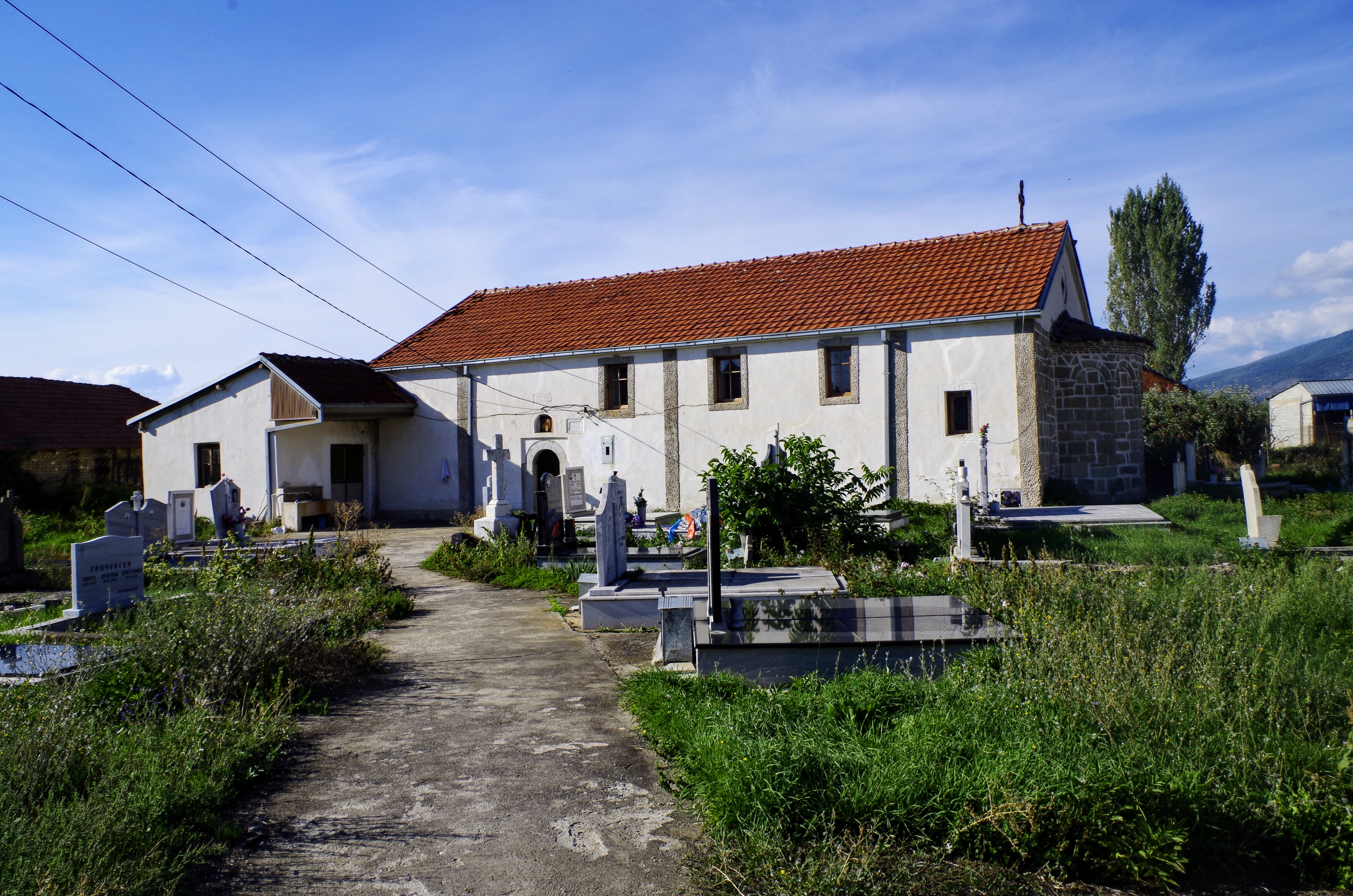 View of the St. Nicholas Church in the village Nakolec